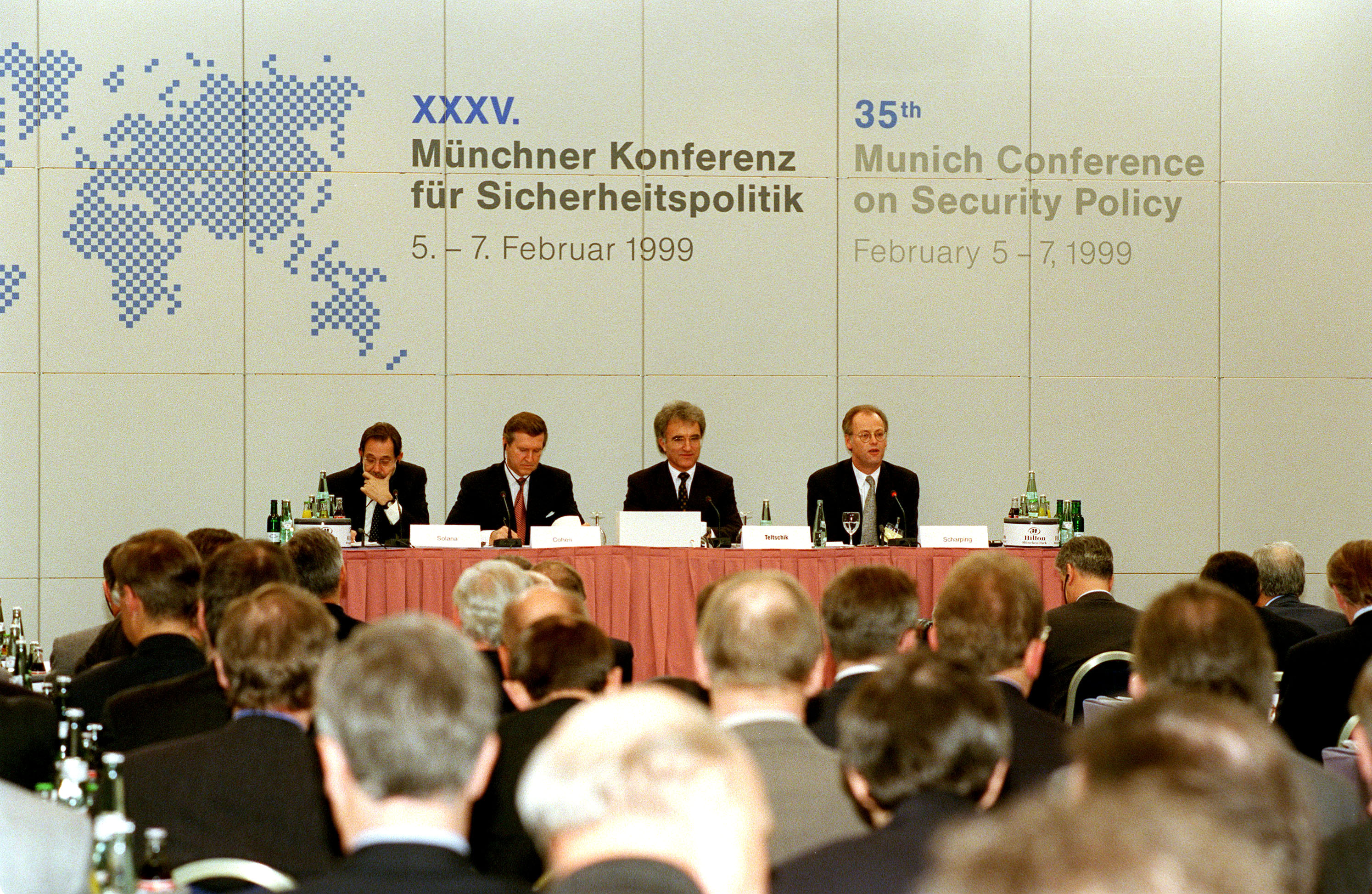 Federal Republic of Germany Minister of Defense Rudolf Scharping (right) speaks during the 35th Munich Conference on Security Policy in Munich, Germany, on Feb. 6, 1999. Joining Scharping on the dais are from left to right: NATO Secretary General Javier Solana; U.S. Secretary of Defense William S. Cohen and Chairman, Christian Democratic Union of Germany Horst Teltschik. The theme of the conference is Global Security on the Threshold to the Next Millennium.